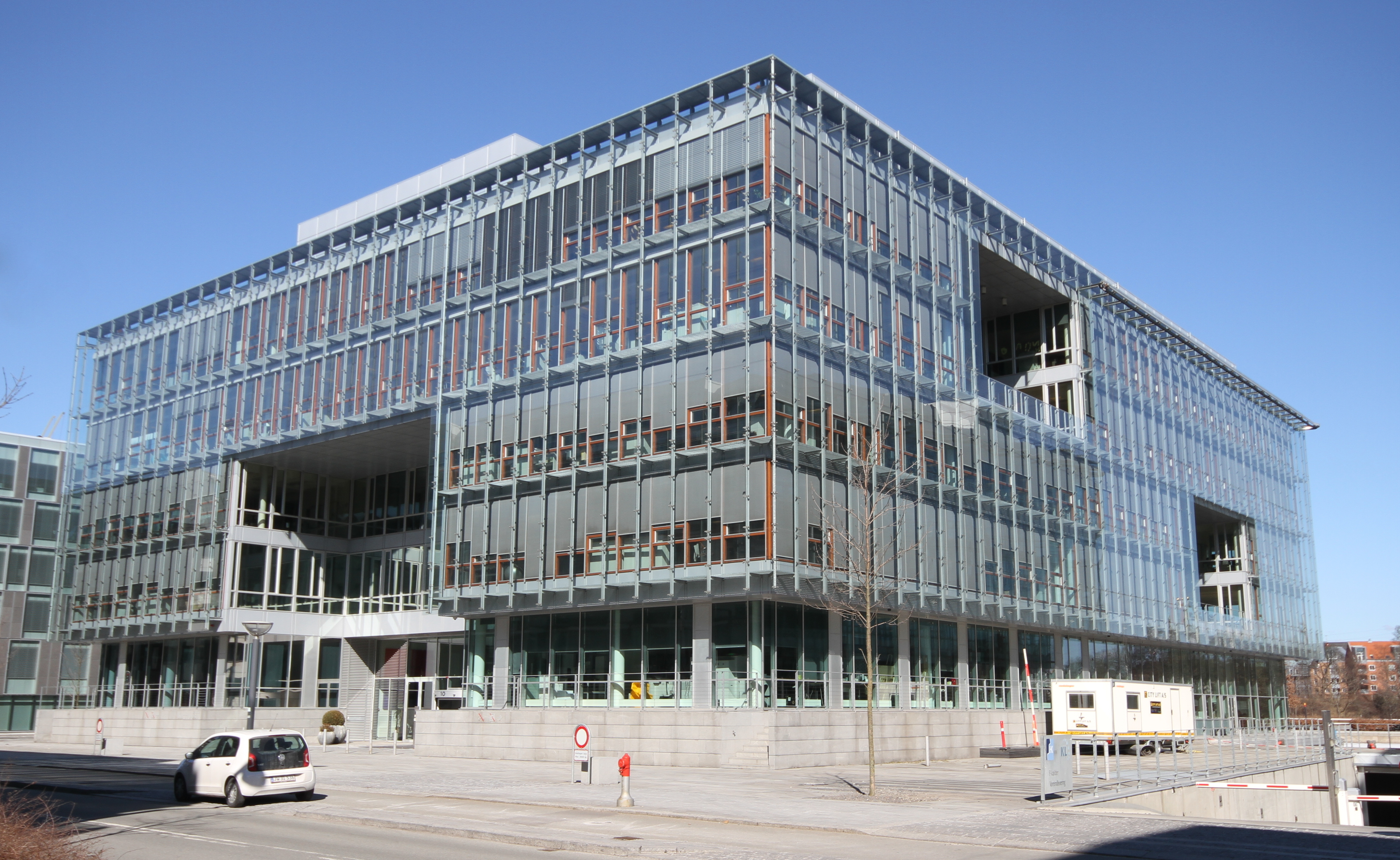 Building at Ny Tøjhusgrunden in Copenhagen)